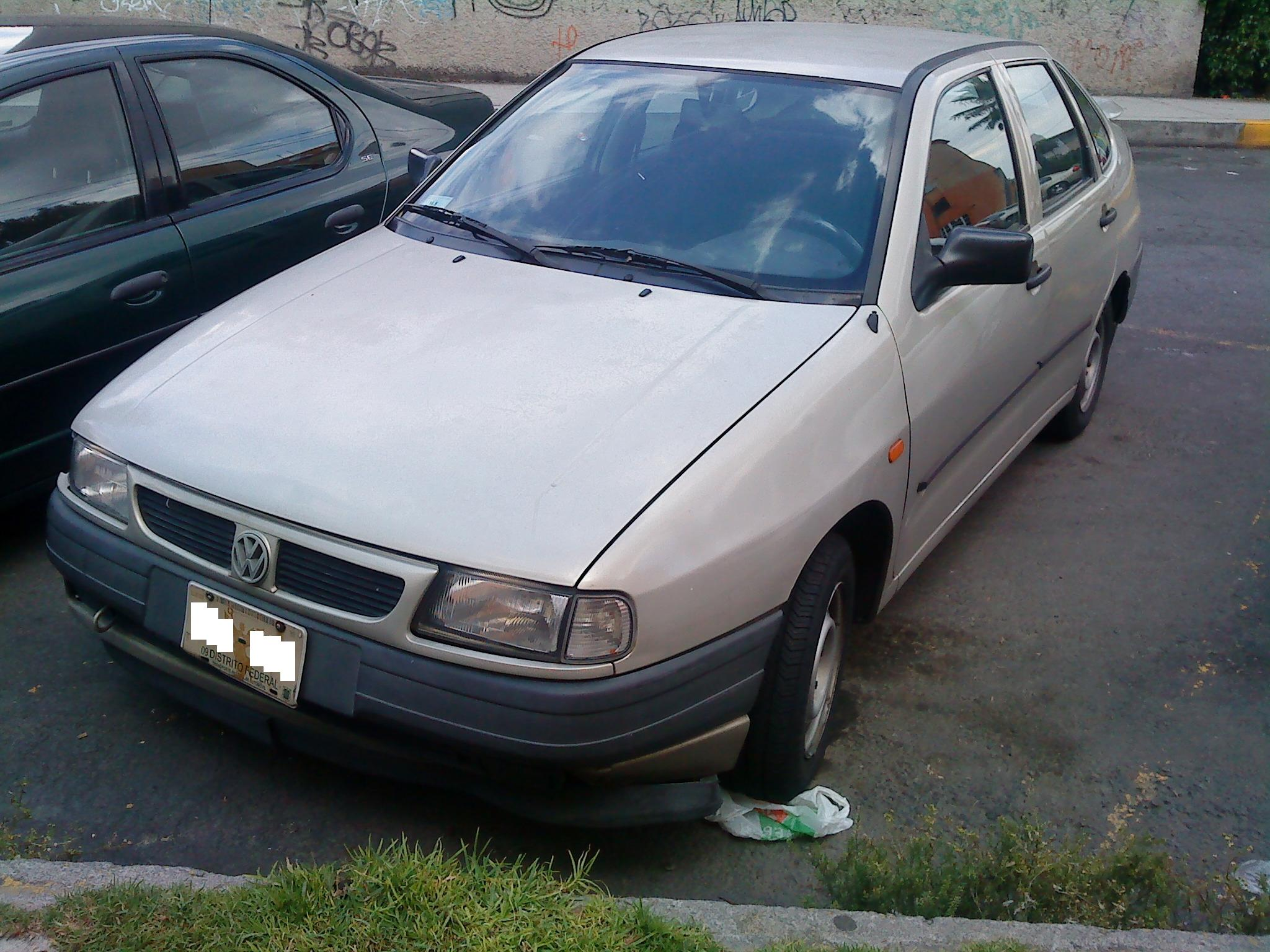 A mexican 1996 Volkswagen Derby on the street.